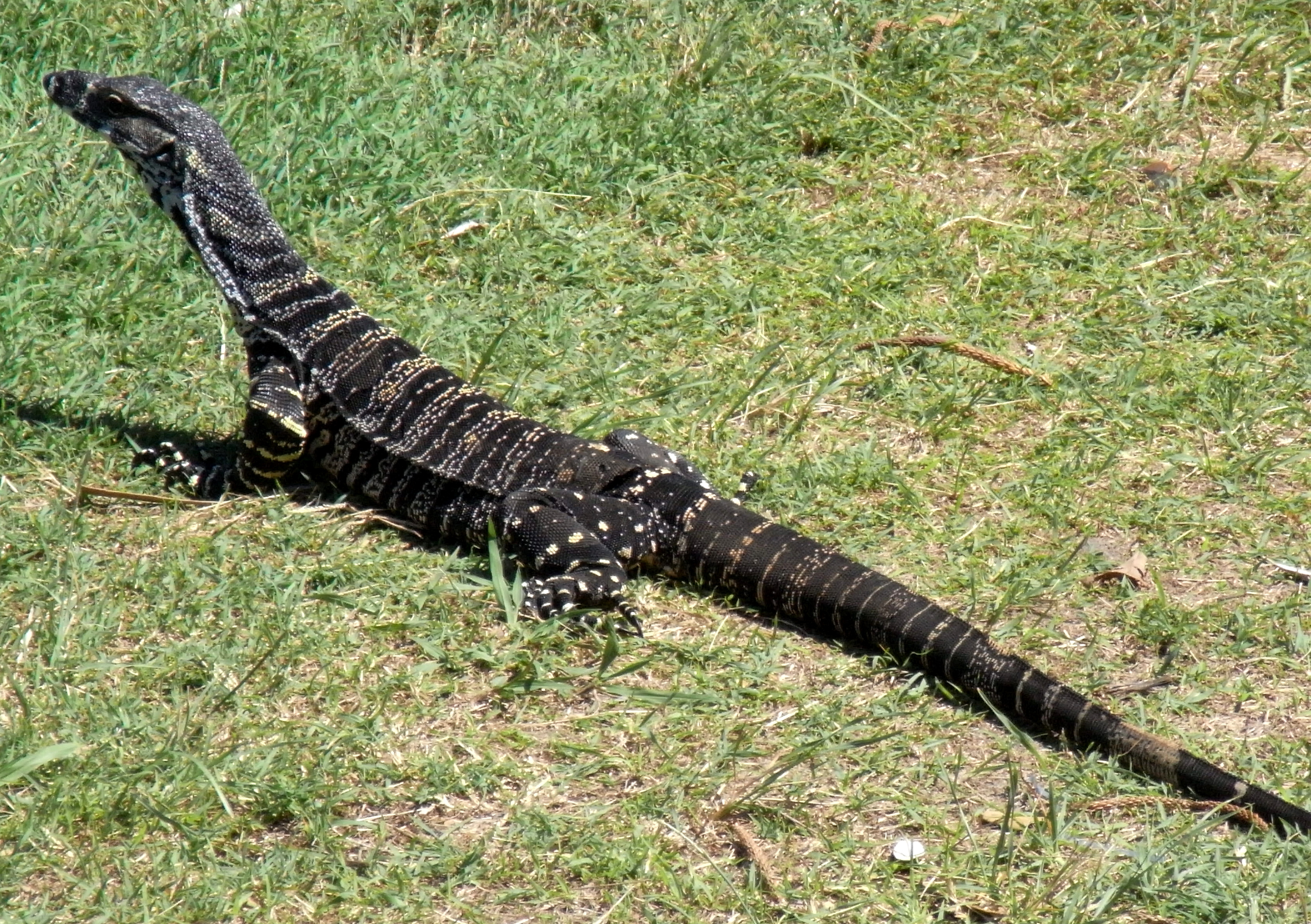 Lace monitor/Goanna (Varanus varius) full length in the grass at Seal Rocks Camping Reserve, New South Wales, Australia.